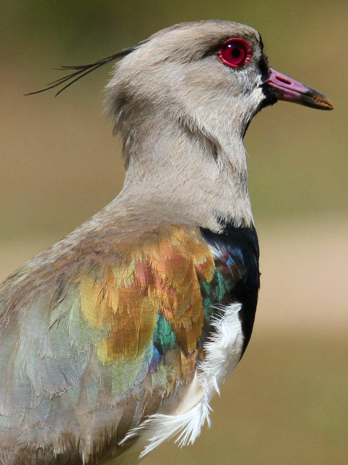 Southern Lapwing (Vanellus chilensis) - portrait to show colours